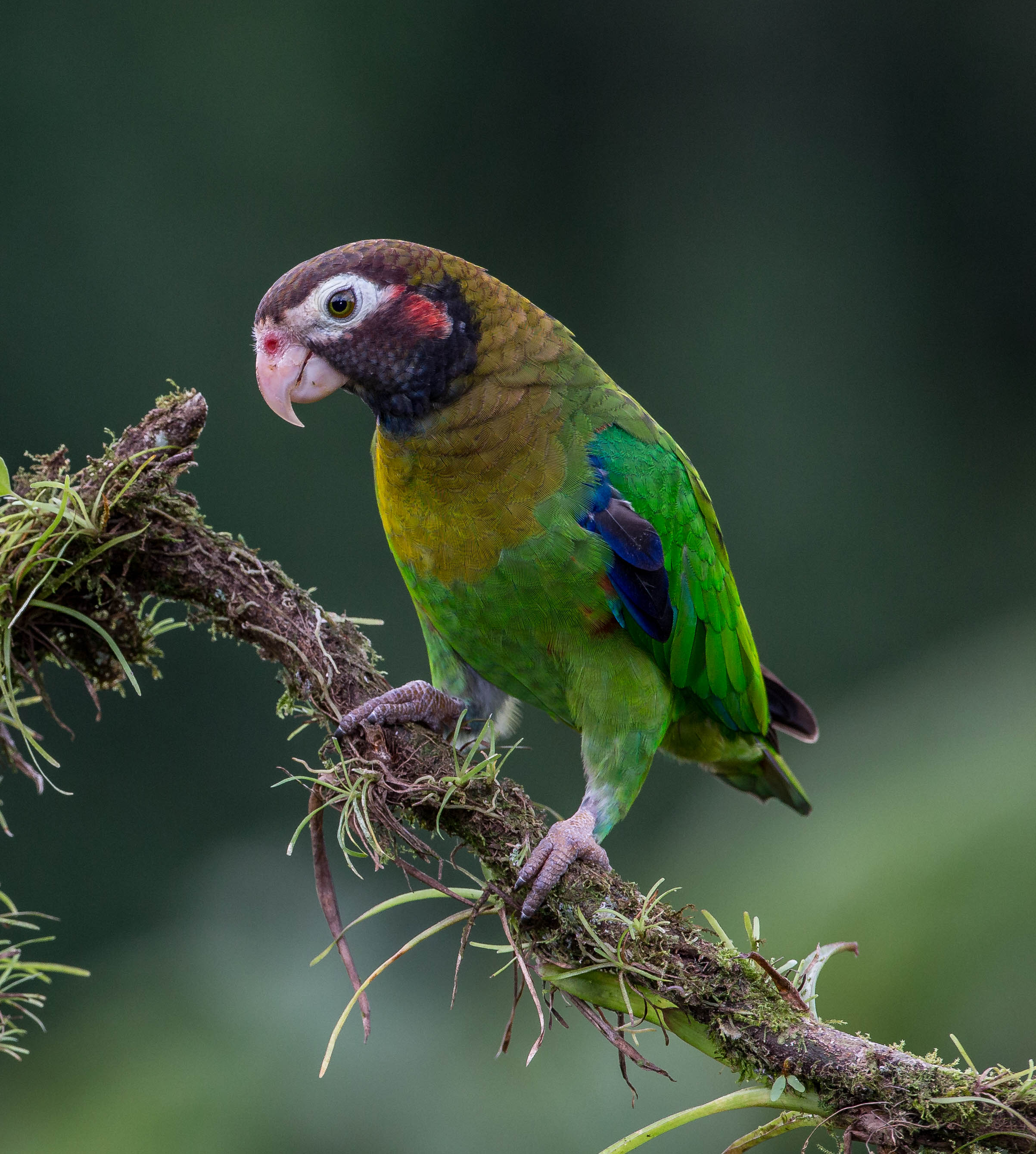 Taken in Costa Rica.